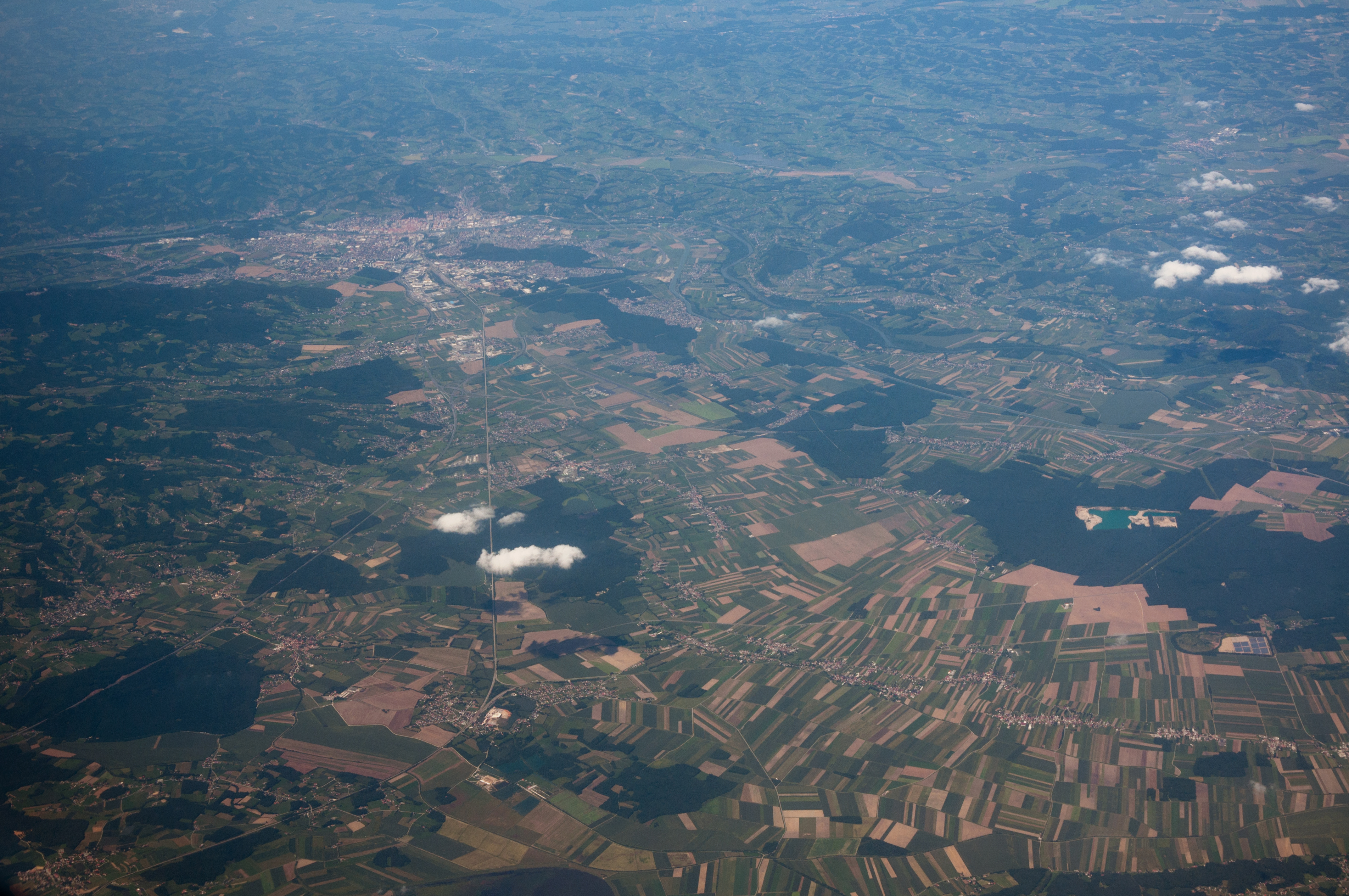 Slovenia, aerial impressions South of Maribor